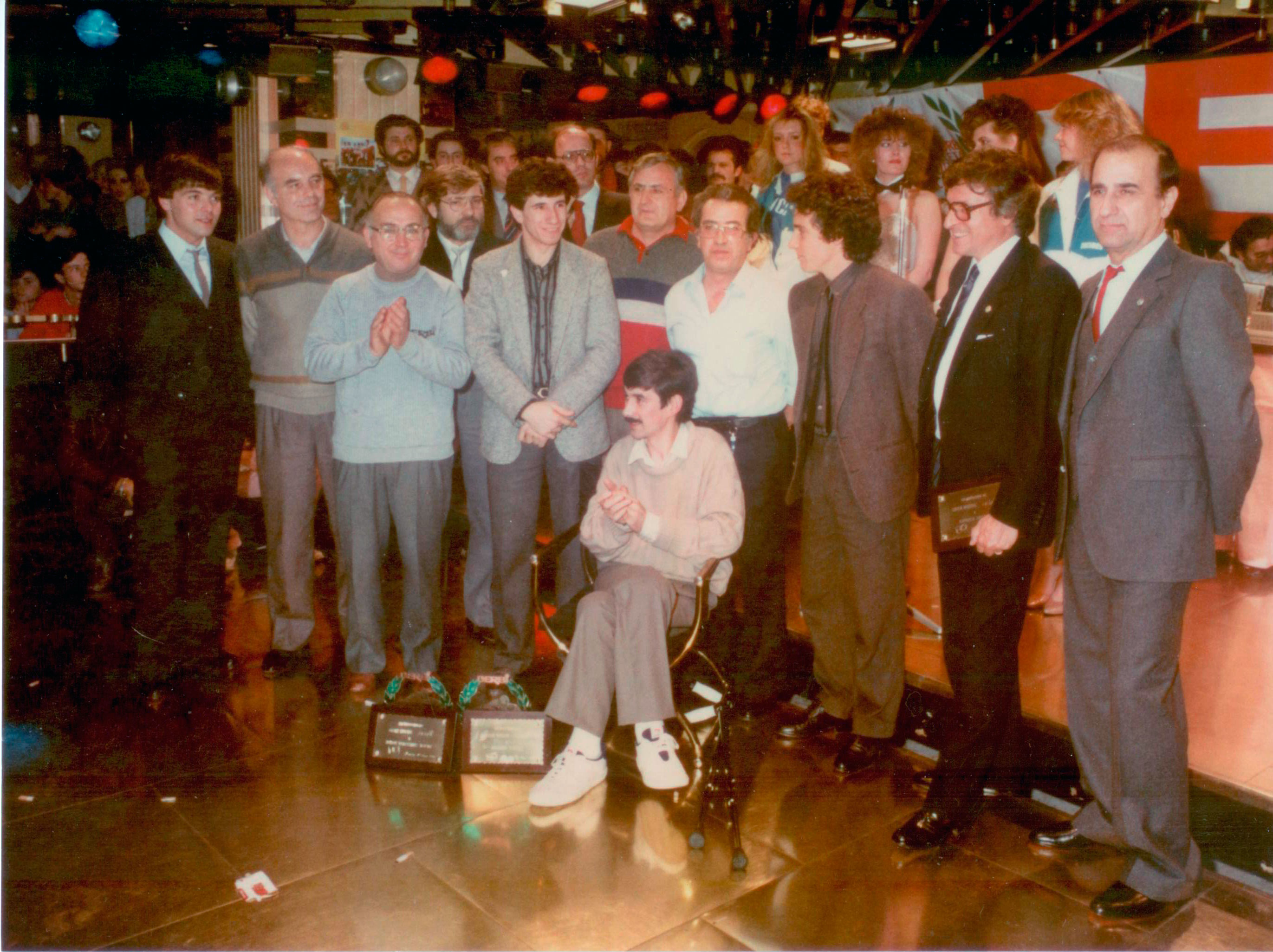 Some staff and members of the Derbi factory team circa 1986, during a homage to Ricardo Tormo (sitting on a chair). Alongside other people, you can see Jorge Martínez Aspar and Paco Tombas.